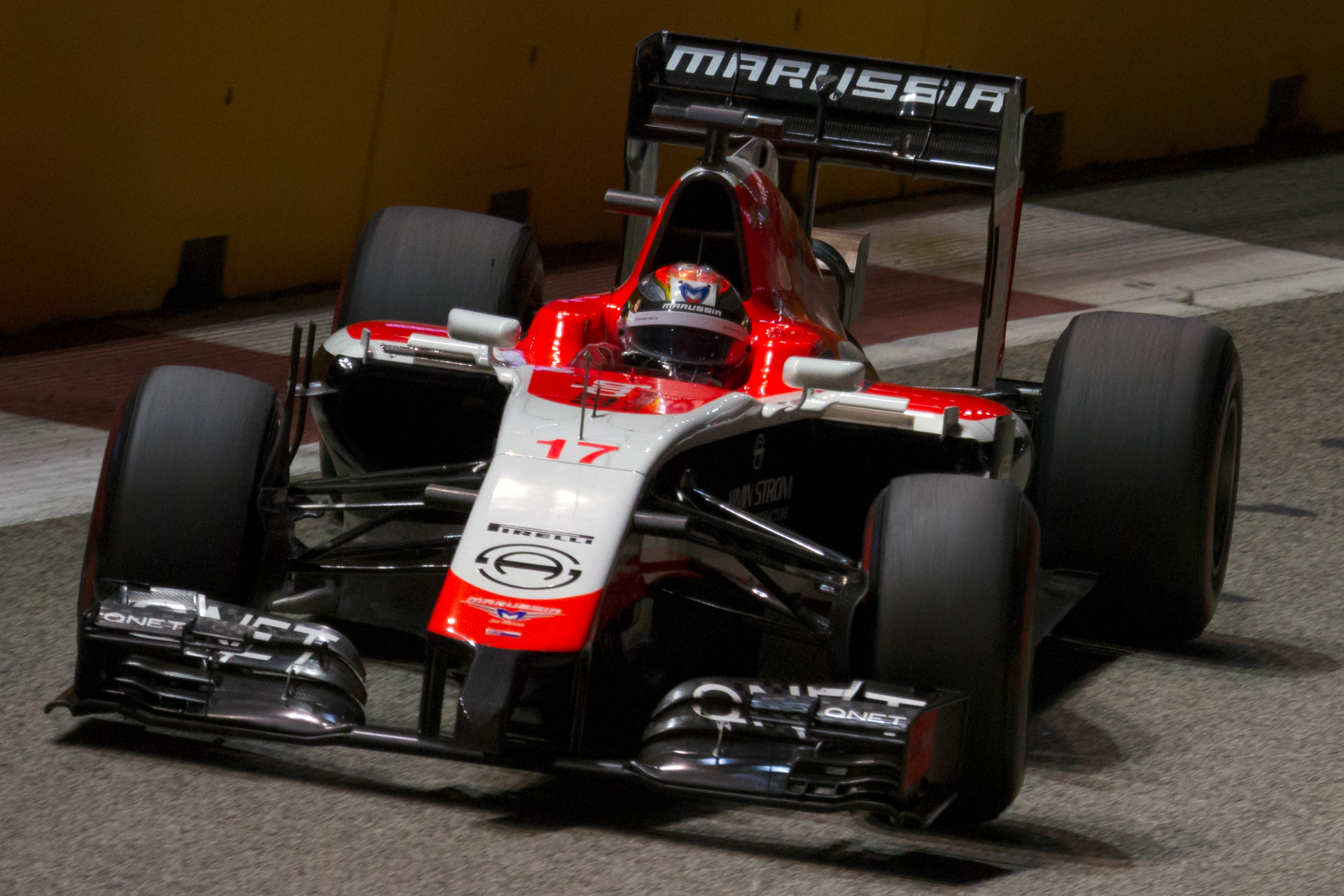 Formula One 2014 Rd.14 Singapore GP: Jules Bianchi (Marussia)